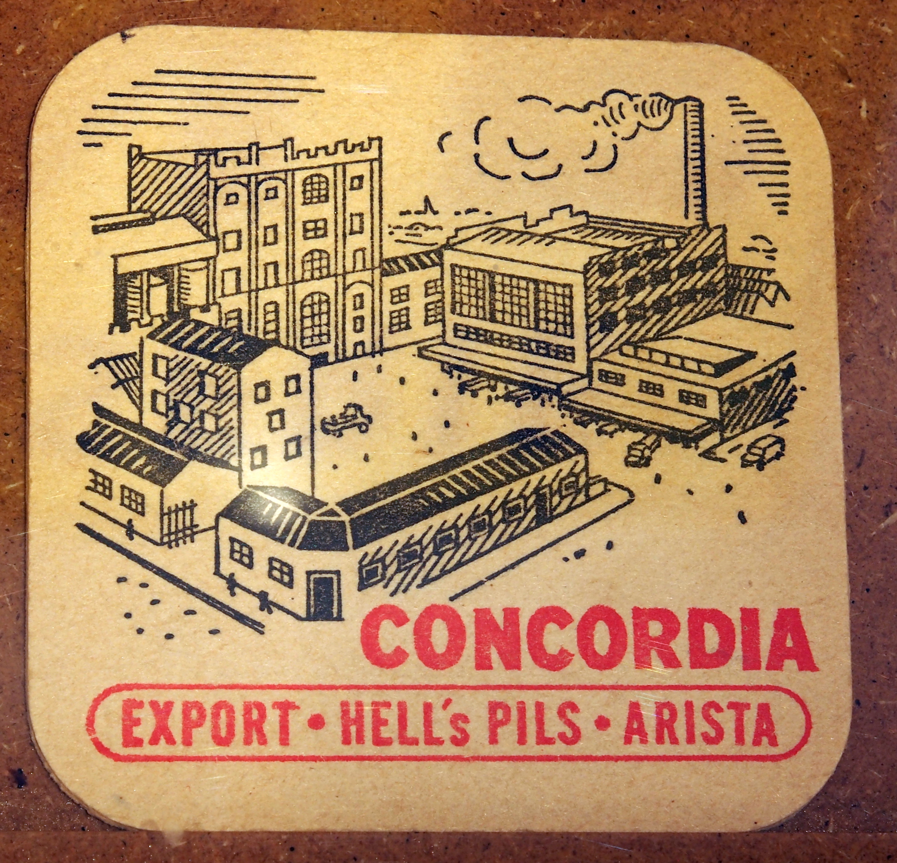 Concordia. (Photographed through glass.)